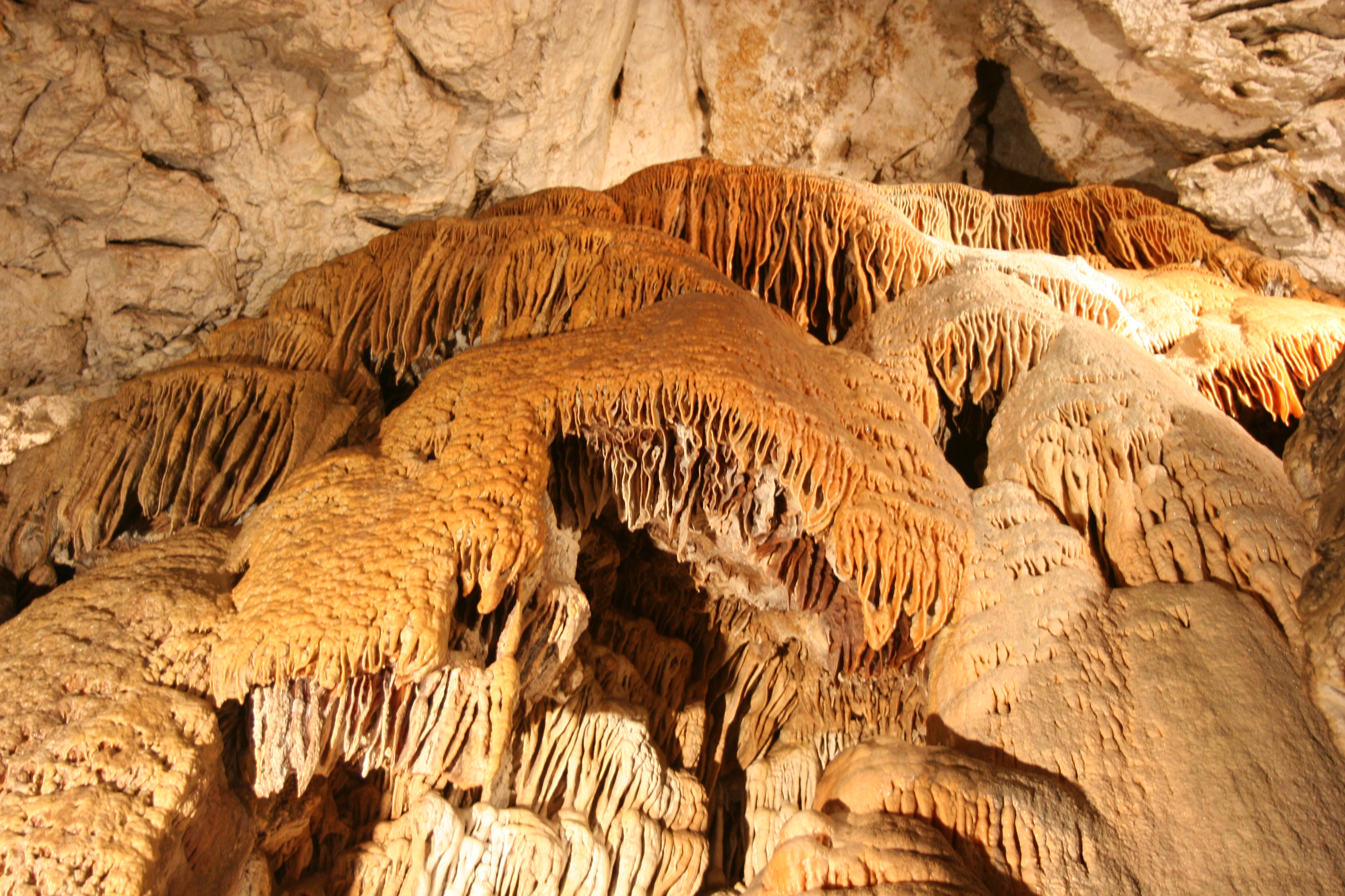 Demänová Cave of Freedom (Demänovská jaskyňa Slobody), Slovakia. Taking this photo was made possible through the financial support of Wikimedia Polska.